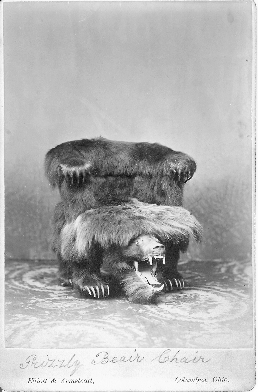 Photo of a chair given by Seth Kinman to Vice President Wheeler, probably in 1877